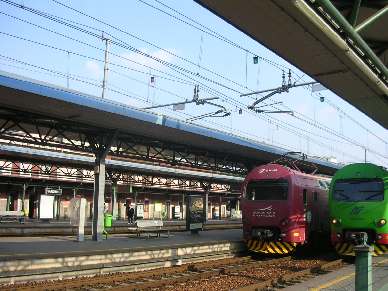 Saronno Train Station. The Malpensa Express train shuttles to both Milano-Malpensa Airport and Milano Downtown in 20 minutes each.